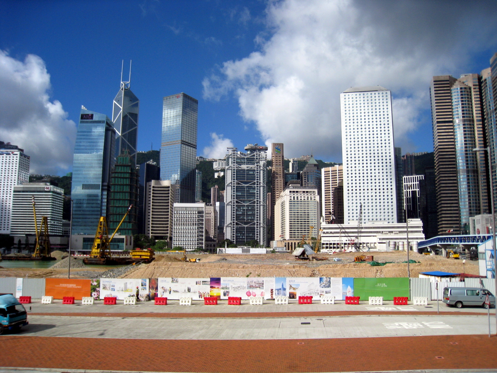 HK Central Buildings in 2008